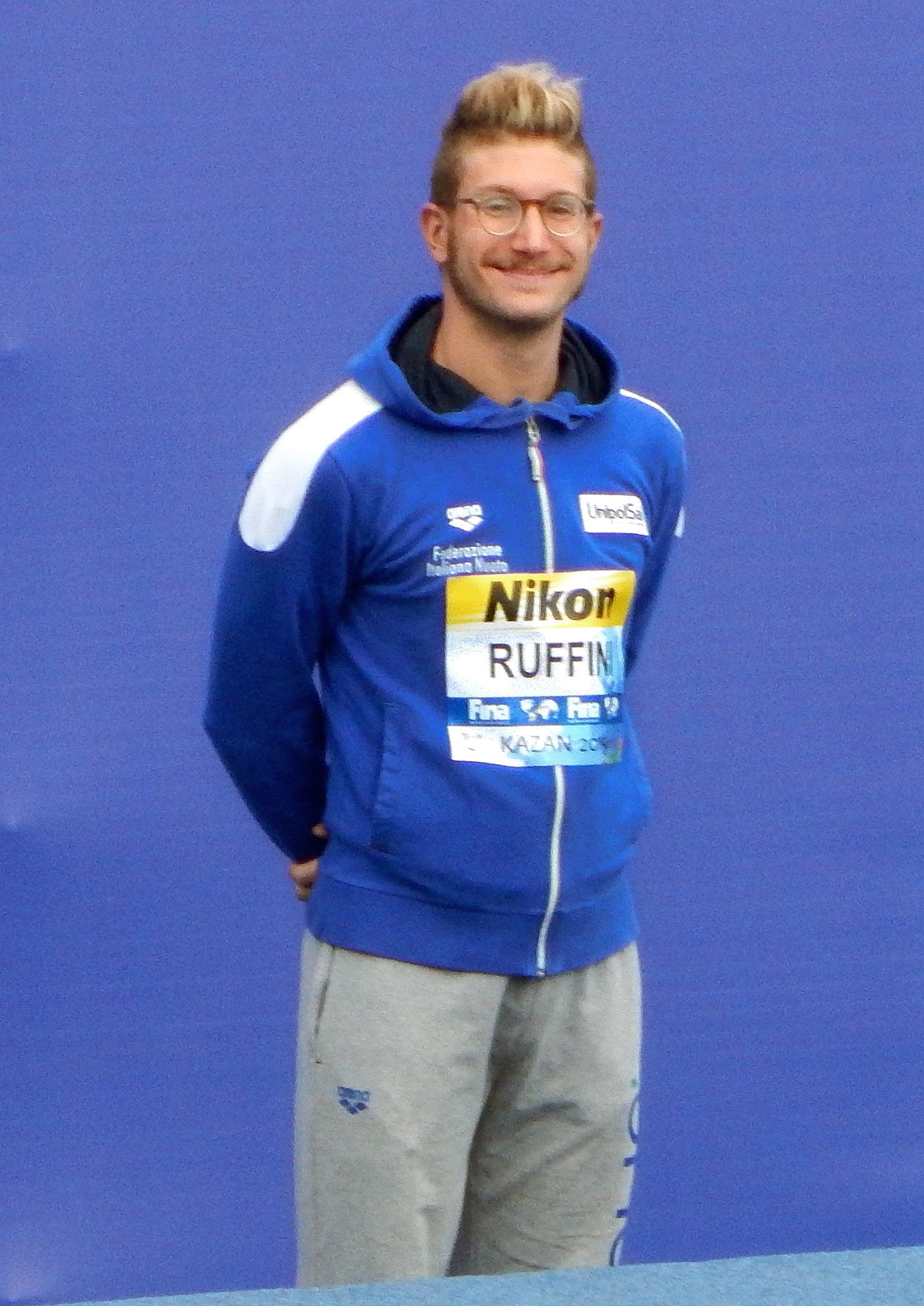 Simone Ruffini, first in the 25km race (open water) at the 2015 World Aquatics Champs in Kazan